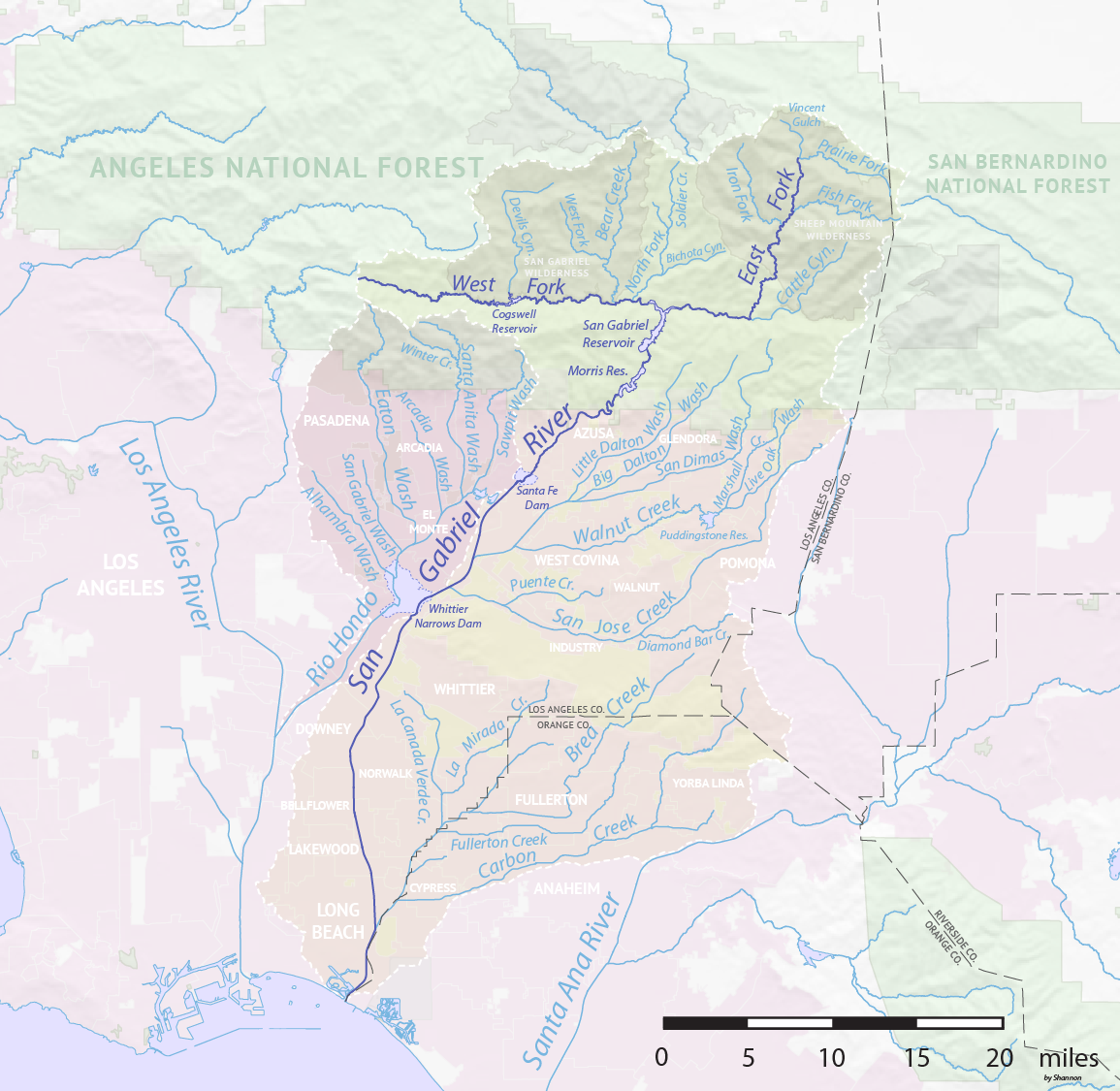 Map of the San Gabriel River watershed in the Greater Los Angeles Area, California. Made using public domain Natural Earth and U.S. Geological Survey data.